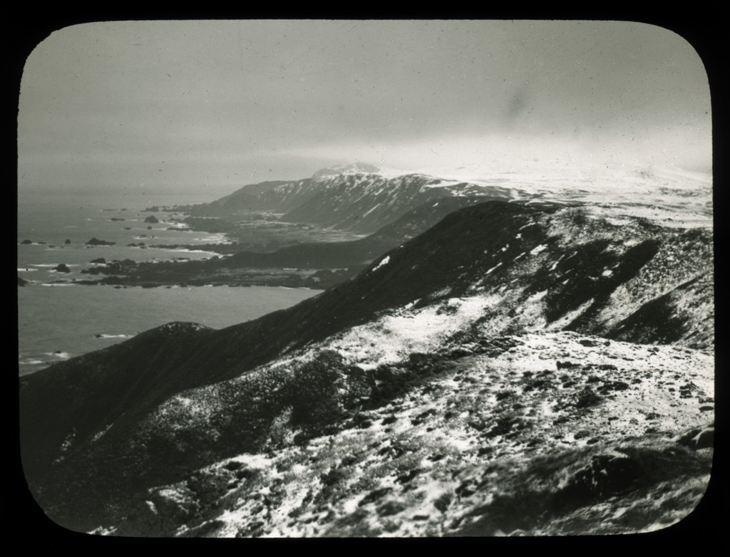 Blake, L. R. (Leslie Russel), 1890-1918. Part of the John George Hunter collection of photographs of Antarctica, 1911-1914.; Slide created by Frank Hurley from the original photograph.; Published in: The home of the blizzard / by Douglas Mawson. London : William Heinemann, 1915, v. 2 facing p. 228. Persistent URL .au/nla.pic-an23323360